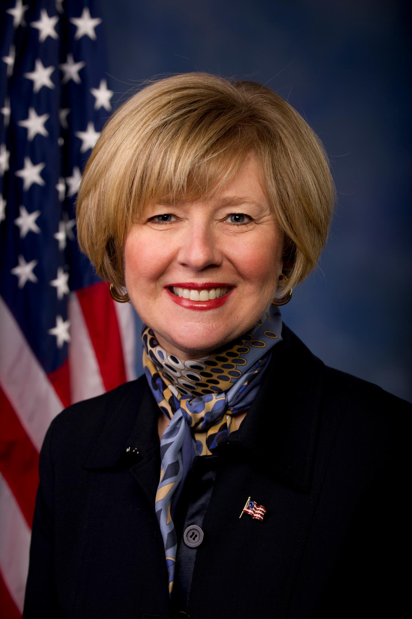 Congresswoman Susan Brooks